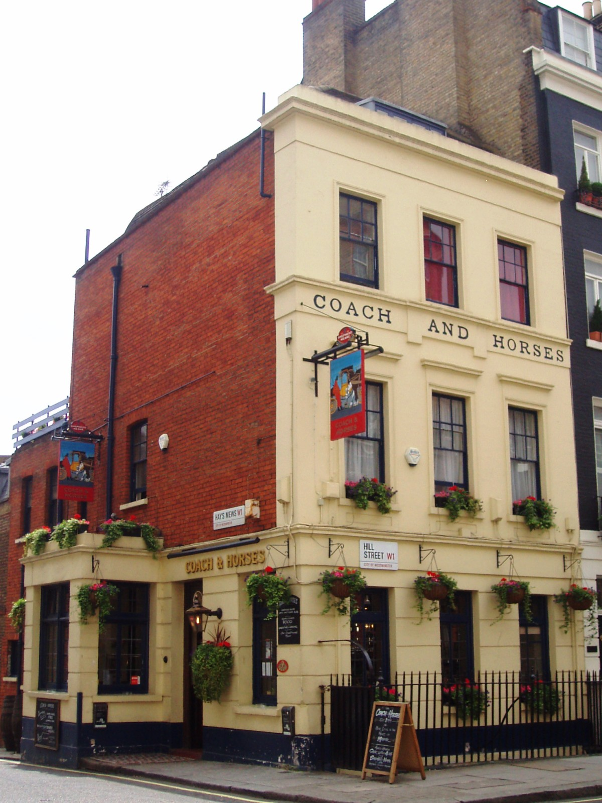 Simply-decorated but quite attractive pub. Address: 5 Hill Street. Owner: Shepherd Neame (website). Links: Randomness Guide to London Fancyapint Beer in the Evening Dead Pubs (history)